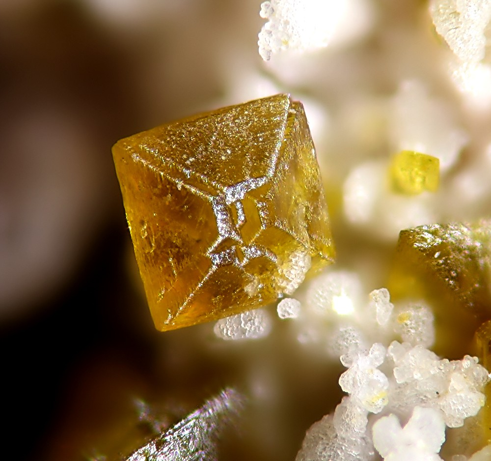 Cyrilovite Locality: Hagendorf South Pegmatite (Cornelia Mine; Hagendorf South Open Cut), Hagendorf, Waidhaus, Vohenstrauß, Oberpfälzer Wald, Upper Palatinate, Bavaria, Germany (Locality at ) Picture width 1,5 mm. Collection and photo Christian Rewitzer This Photo was Photo of the Day - 21st Jan 2008